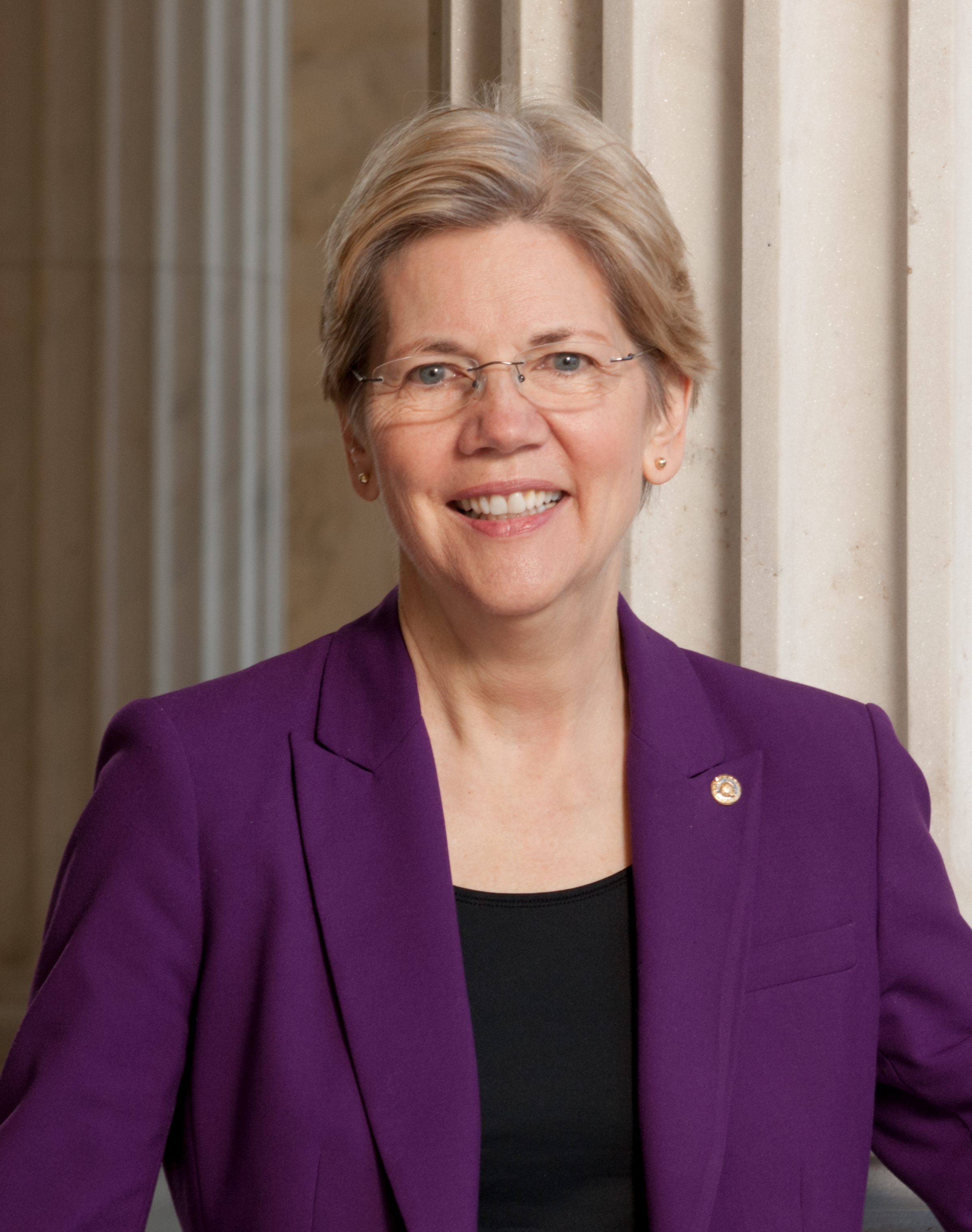 Official 113th Congressional Portrait of Democratic Senator, Elizabeth Warren of Massachusetts.